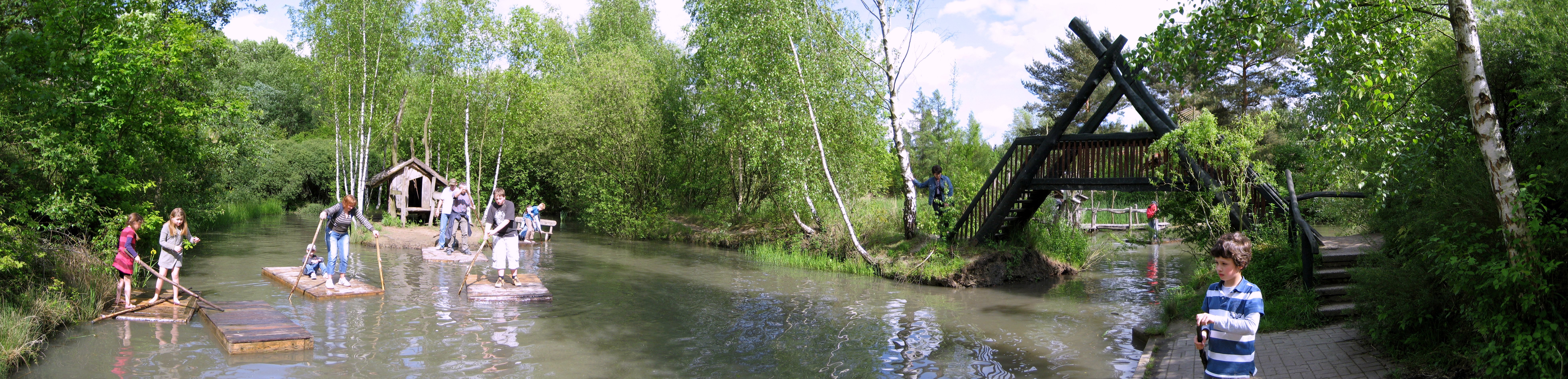 Theme park, float pool